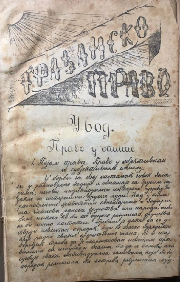 "Civil rights" ("Građansko pravo") by Andra Đorđević. A textbook used in The Great School (Velika škola) in The Principality of Serbia. It can be found in the Society for Culture, Art and International Cooperation Adligat in Belgrade, Serbia.